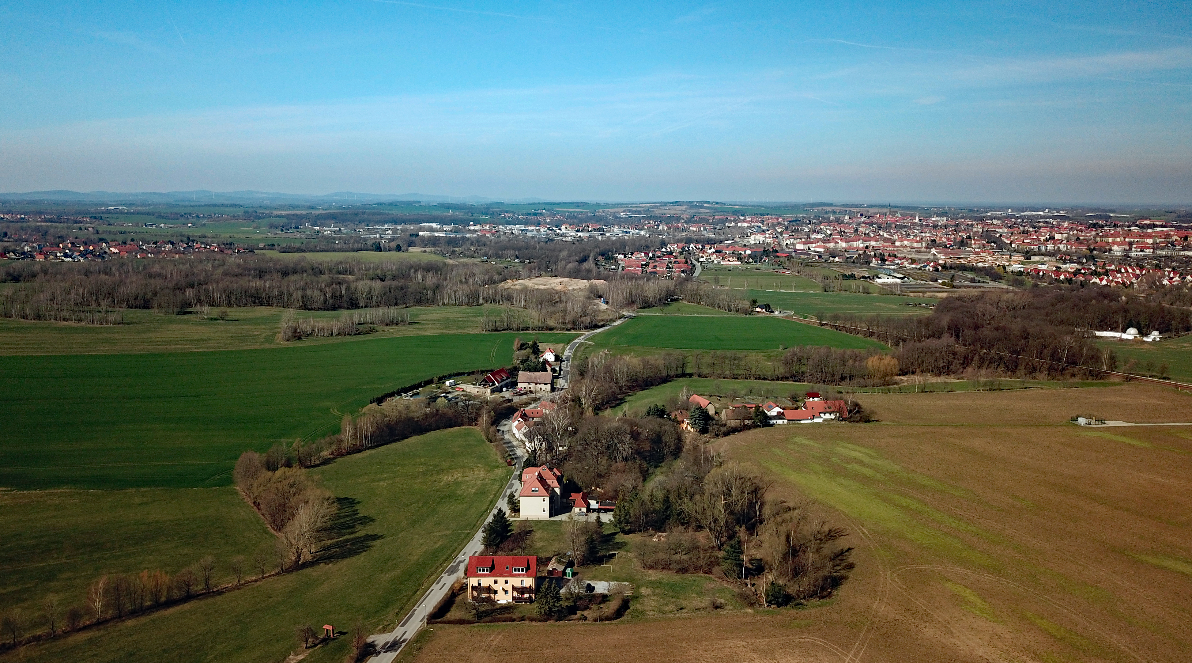 Soculahora (Kubschütz, Saxony, Germany) Hornjoserbsce: Powětrowy wobraz Sokolcy z Budyšinom w pozadku Dieses Foto wurde mit einem Quadcopter innerhalb der RMZ des Flugplatzes EDAB aufgenommen. Der Flugleiter wurde am Aufnahmetag telephonisch über Ort und Zeit informiert und hat zugestimmt. Der Flug erfolgte auf Grundlage der Allgemeinverfügung der Landesdirektion Sachsen zur Erteilung der Betriebserlaubnis für unbemannte Luftfahrtsysteme und Flugmodelle gemäß § 21a LuftVO und Zulassung von Ausnahmen von Betriebsverboten gemäß § 21b LuftVO für den Freistaat Sachsen.